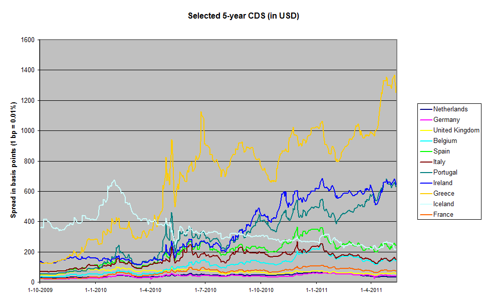 Indicative prices of 5-year credit default swaps on government bonds of a number of countries. Source: various. NB: I'm no longer so sure about the usability of this graph, and will no longer update it